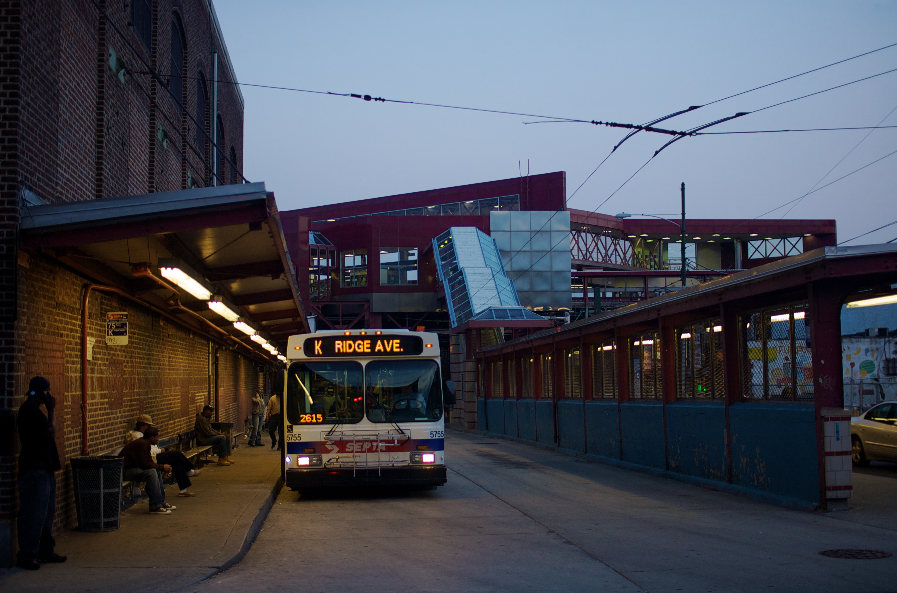 Margaret–Orthodox (SEPTA station) in Philadelphia, PA